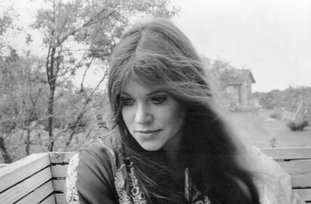 Publicity photo of singer, songwriter, and musician Melanie Safka.